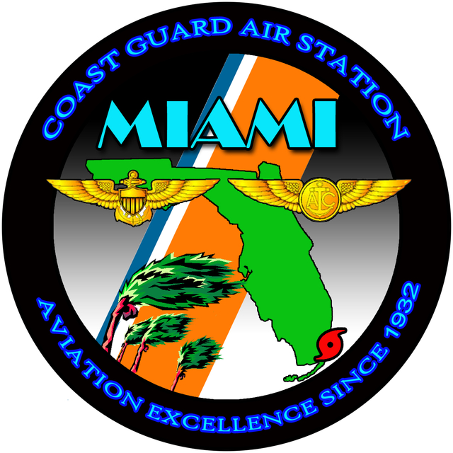 US Coast Guard Air Station Miami logo